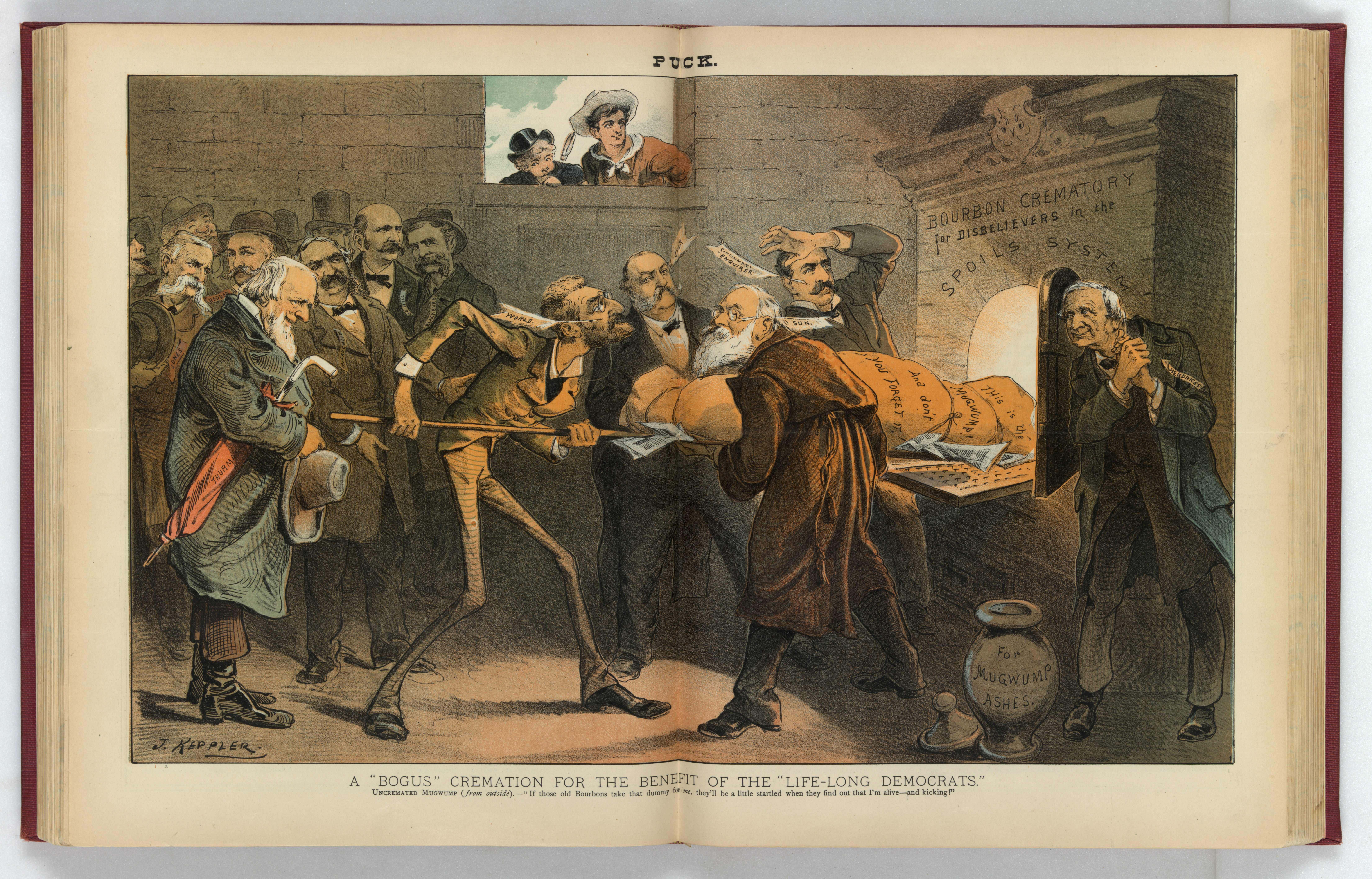 Title: A "bogus" cremation for the benefit of the "life-long Democrats" Abstract: Illustration shows a group of men, some identified by name "Blackburn, D.B. Hill, Mclaughlin, Thurman, Jones, Hedden, [and] Hendricks" and some by association with quills behind their ears "Sun" Charles A. Dana, "Cincinnati Enquirer" John R. McLean, "World" Joseph Pulitzer, and "Star", with the newspaper editors pushing a wrapped figure labeled "This is the Mugwump! And don't you forget it!" into a crematorium labeled "Bourbon Crematory for Disbelievers in the Spoils System"; Hendricks stands on the right, next to an urn labeled "For Mugwump Ashes" and the others observe from the left. Puck and the figure representing "The Independent Party" are watching from a window in the background. Physical description: 1 print : chromolithograph. Notes: Caption: Uncremated Mugwump (from outside)-- "If those old Bourbons take that dummy for me, they'll be a little startled when they find out that I'm alive - and kicking!"; J. Keppler.; Copyright 1885 by Keppler & Schwarzmann.; Illus. from Puck, v. 18, no. 454, (1885 November 18), centerfold.; Title from item.